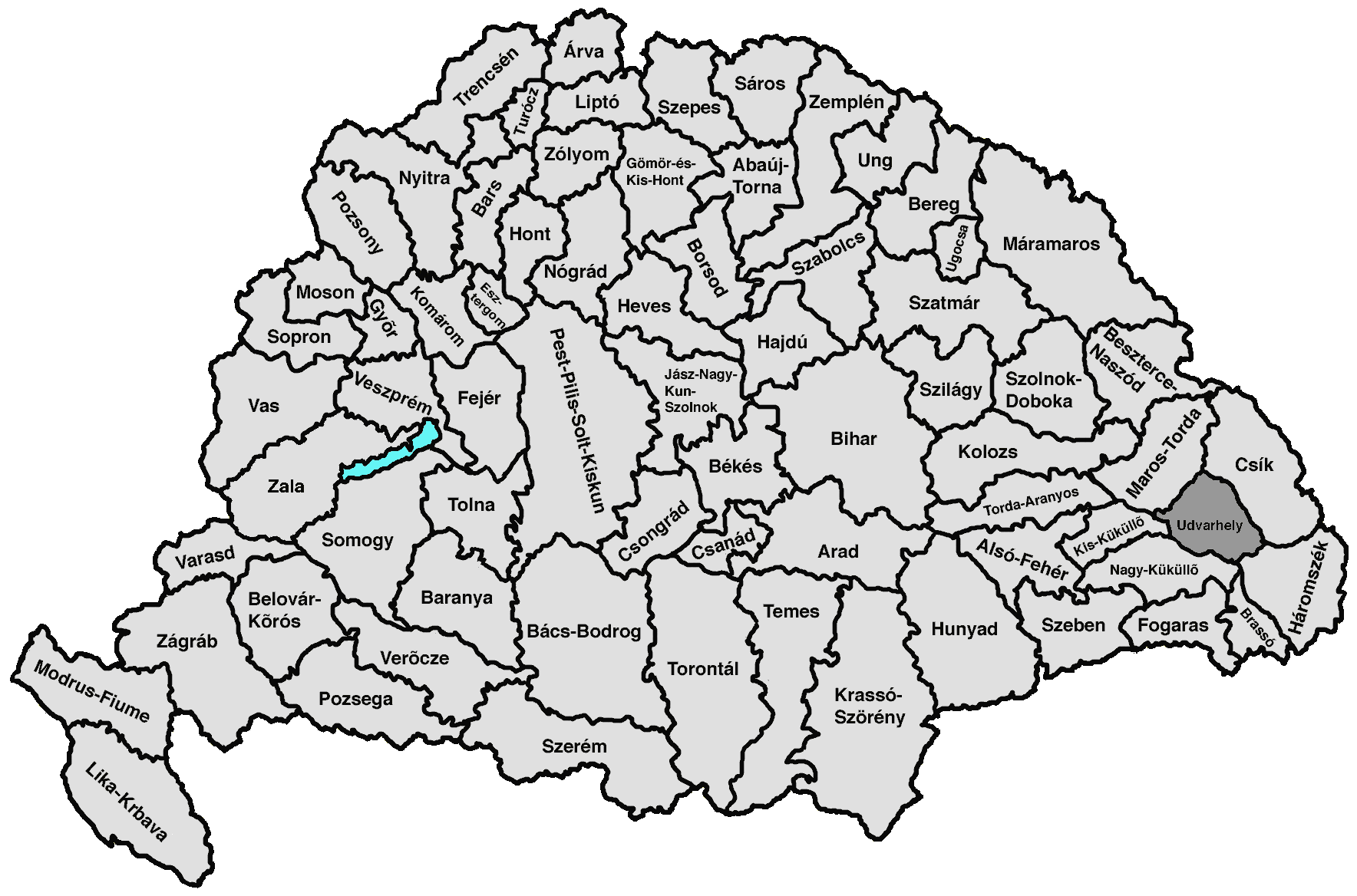 own edit of Image:Zala.png